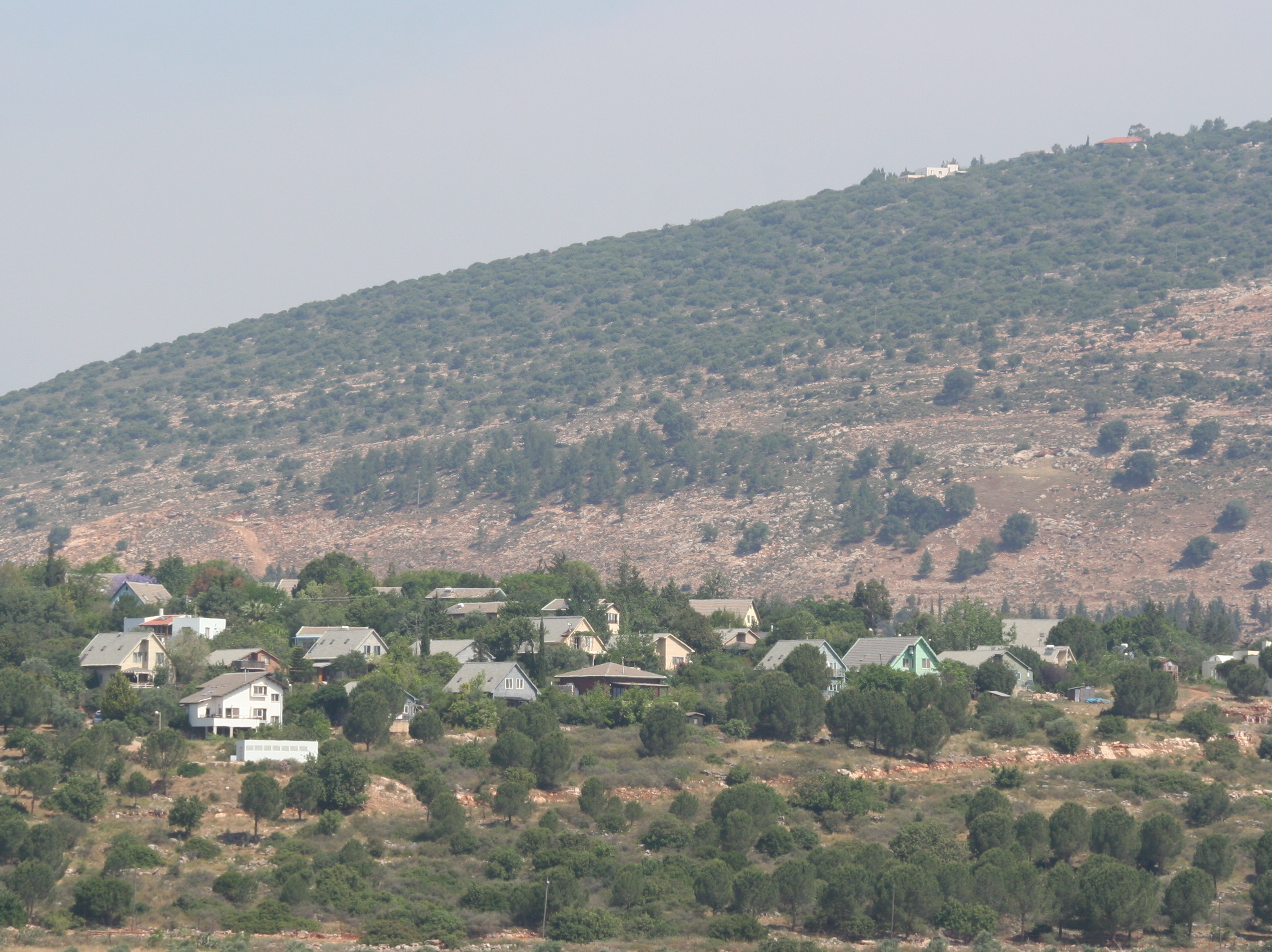 Ma'ale Tzviya, Israel